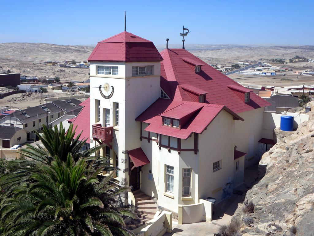 Goerke Haus (1911), one of the "diamond palaces" of Luderitz, Namibia, was home to Hans Goerke, manager and co-owner of the German-era diamond mining company.